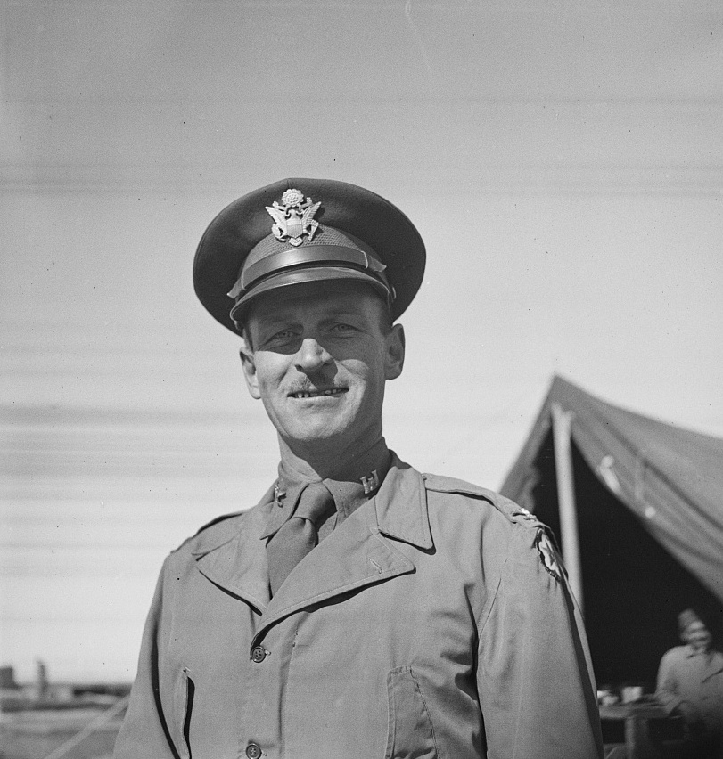 Colonel Don Shingler, Commander of the United States Army Motor Transport Division in Iran and Iraq